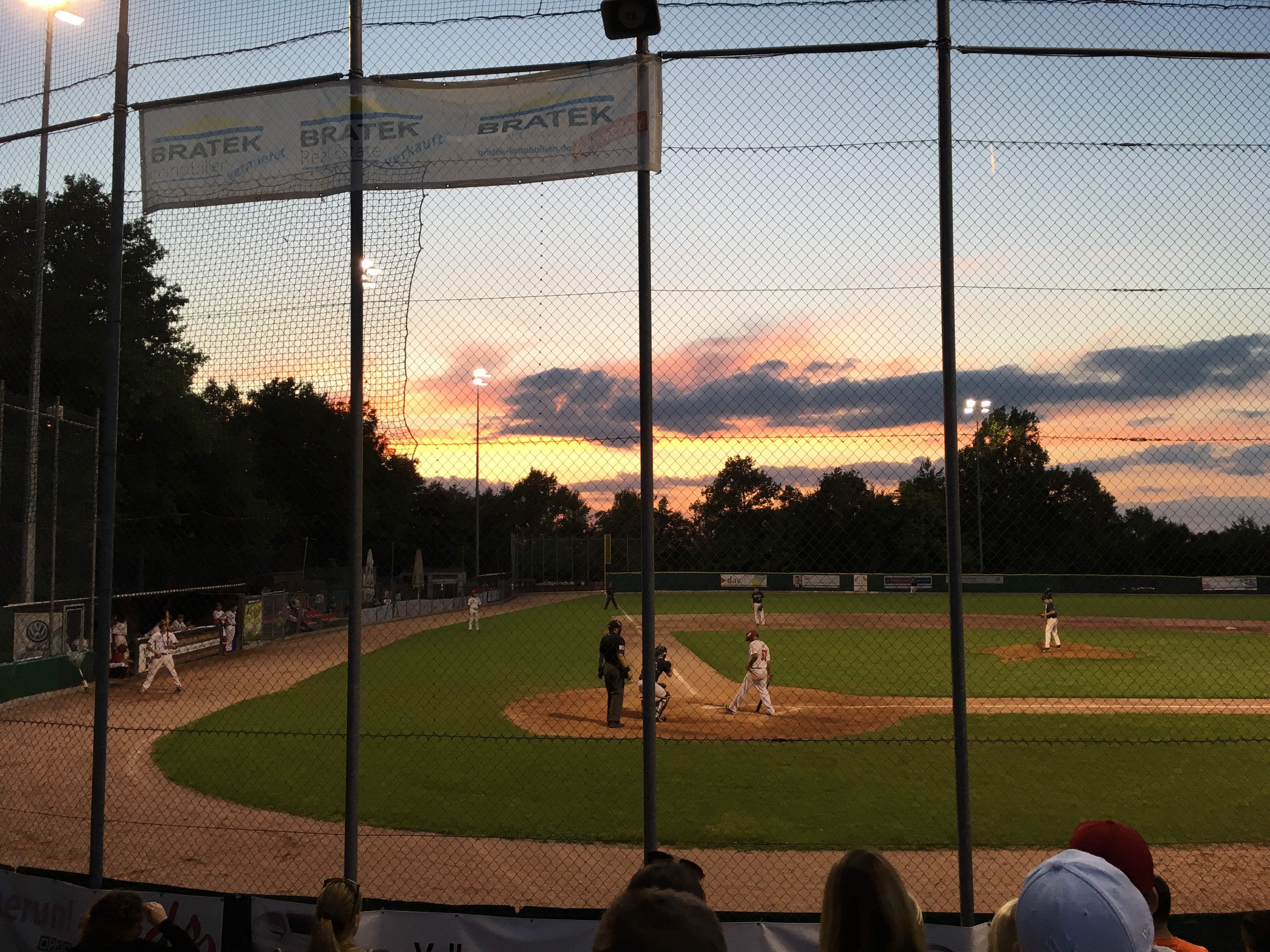 Baseball Ballpark Stuttgart, Germany